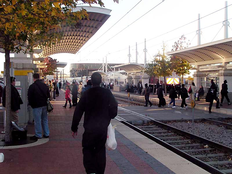 Passengers at Union Station in the Reunion District of downtown Dallas, Texas (USA)